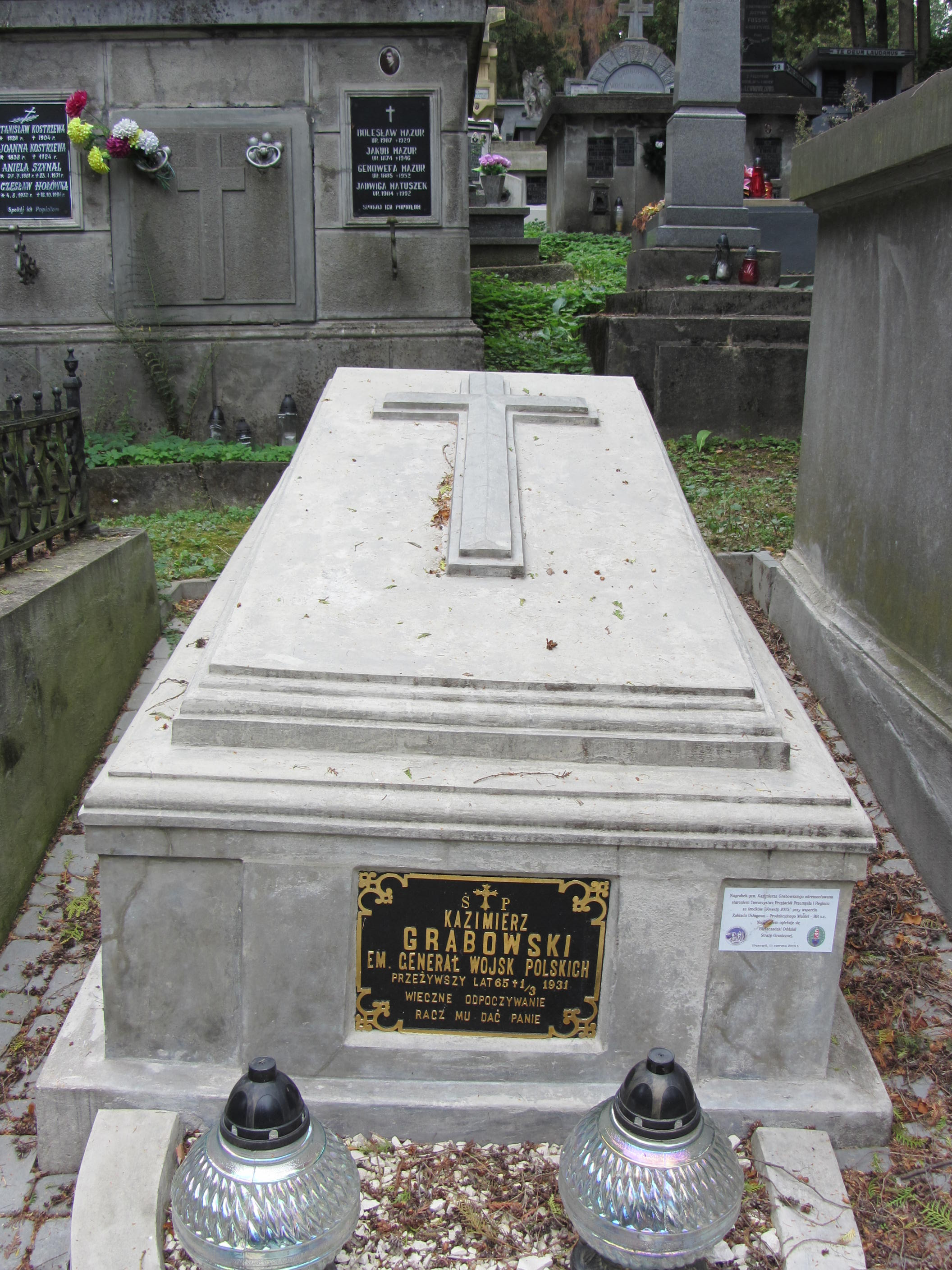 Generał WP